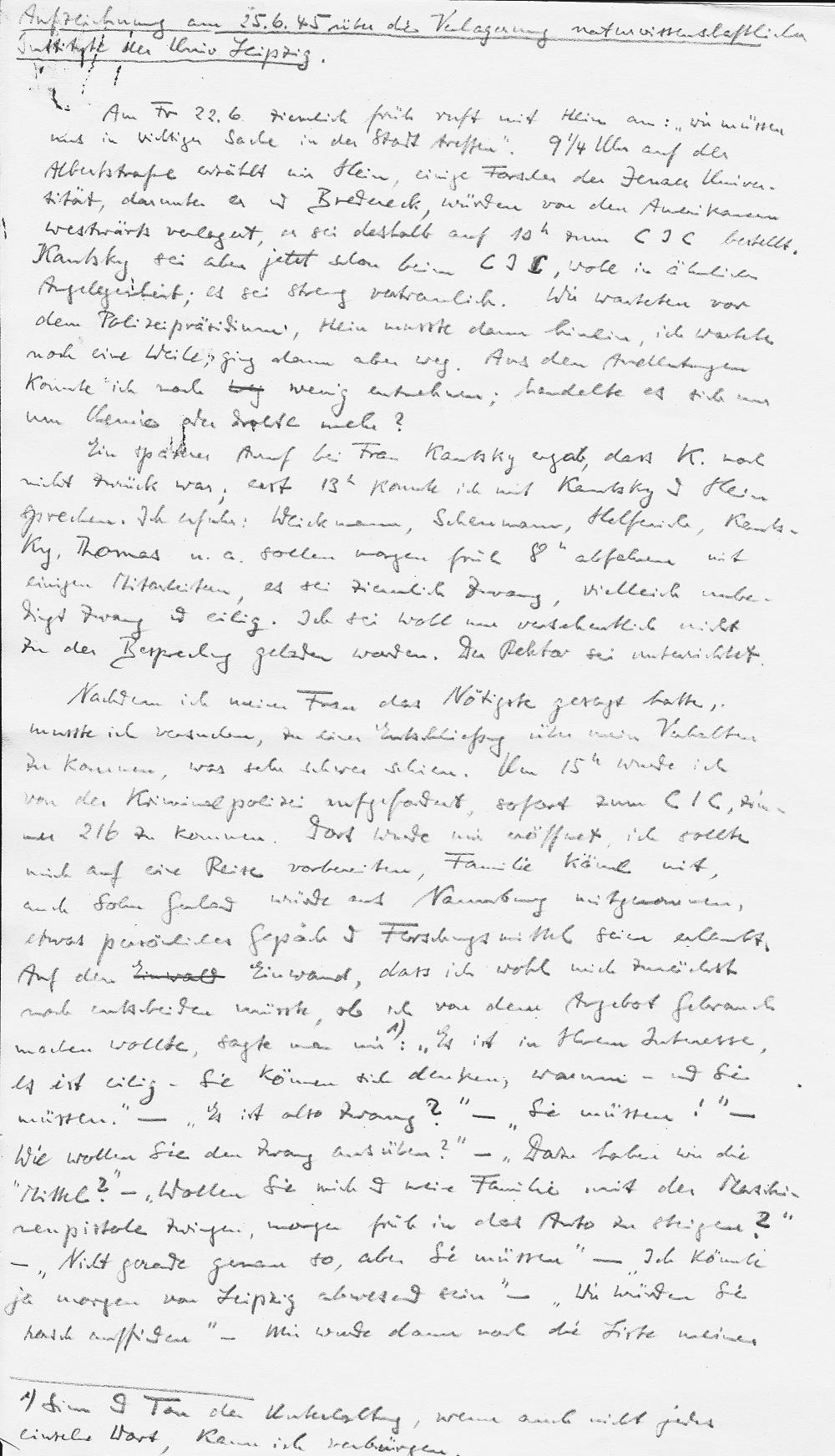 Page 1 of a manuscript by Friedrich Hund, 25 June 1945 at Leipzig (departure of the Americans).